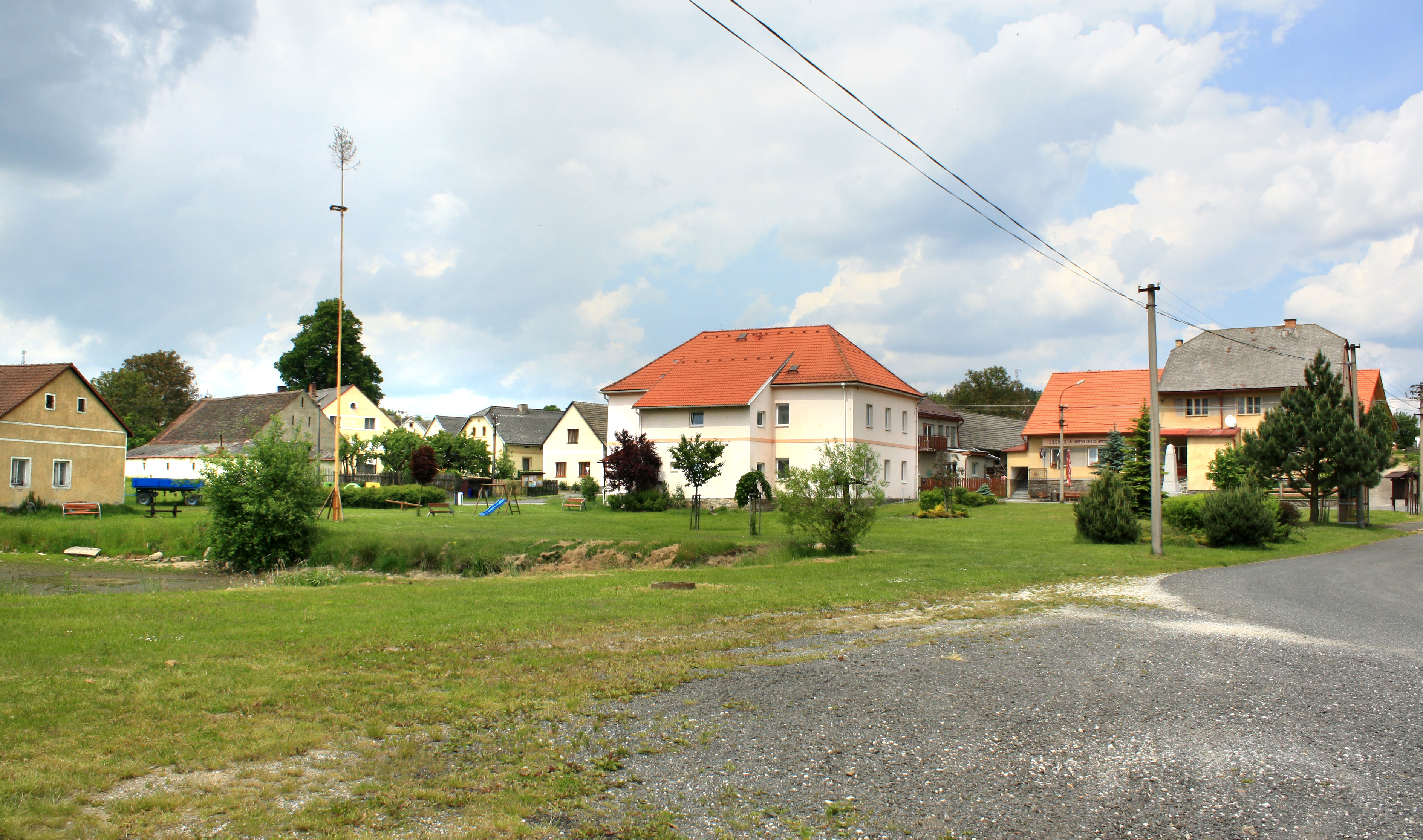 Common in Číhaň, Czech Republic